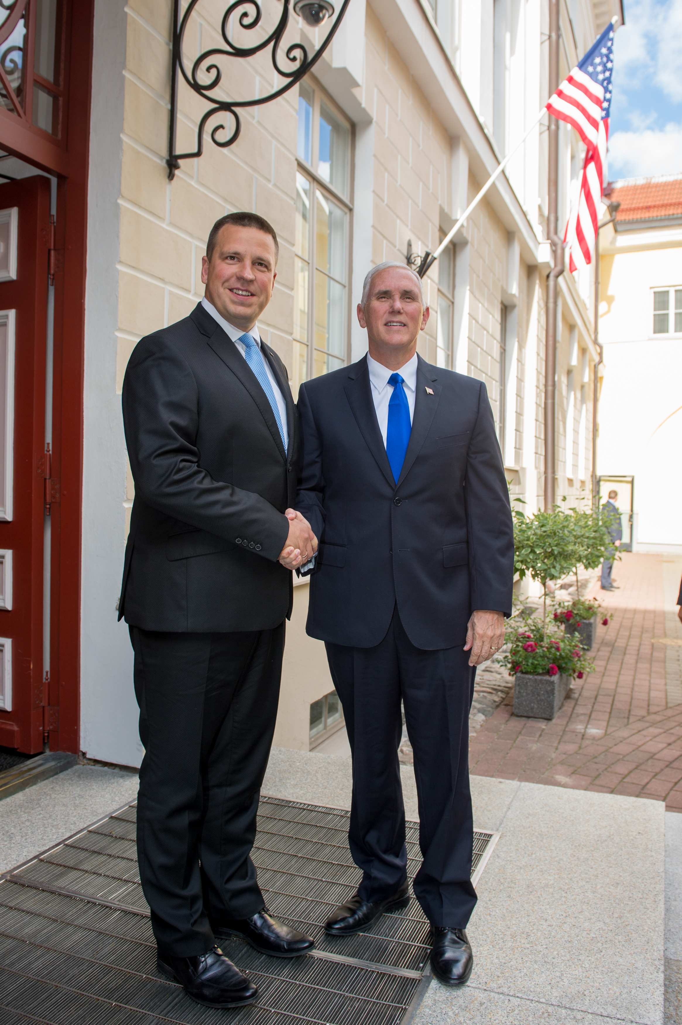 Photo: Raigo Pajula (Ministry of Foreign Affairs)